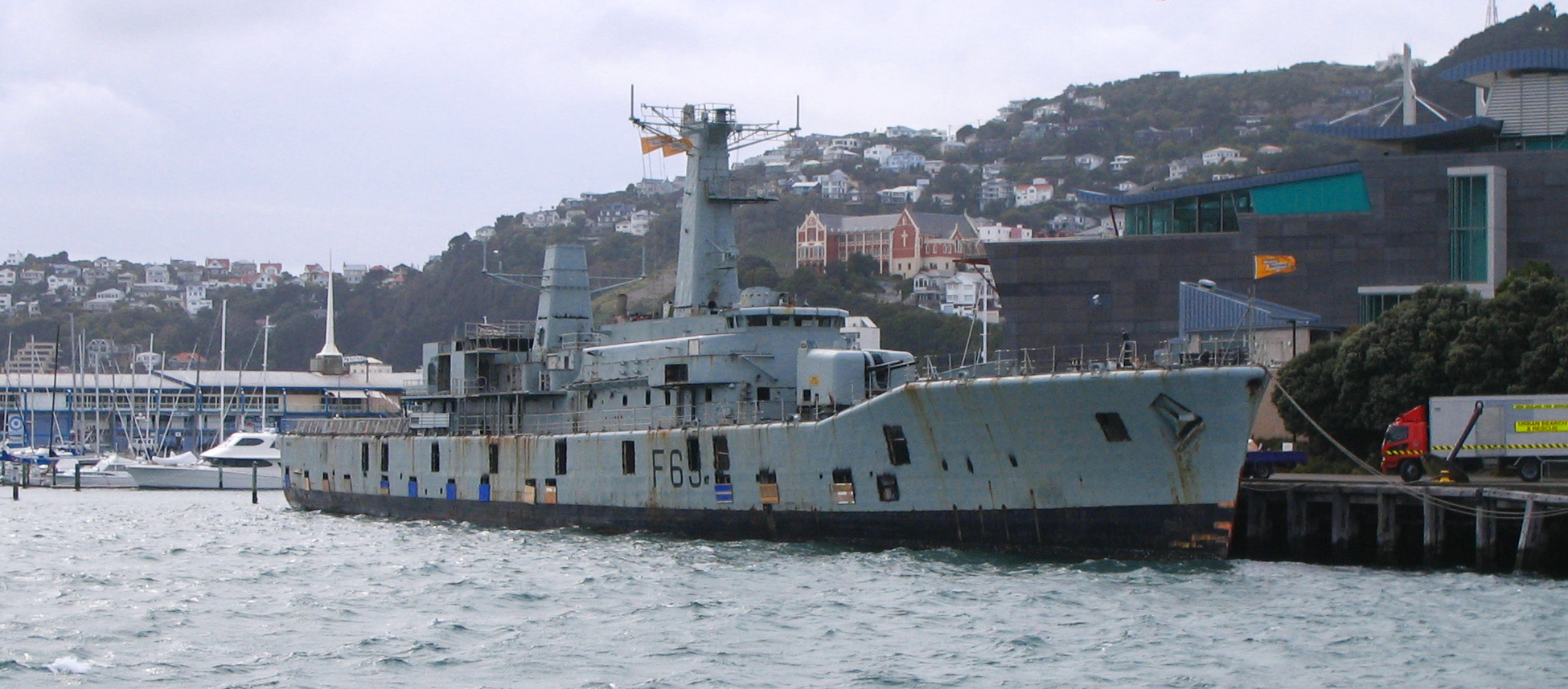 HMNZS Wellington prior to being sunk as a dive wreck, Wellington, New Zealand.